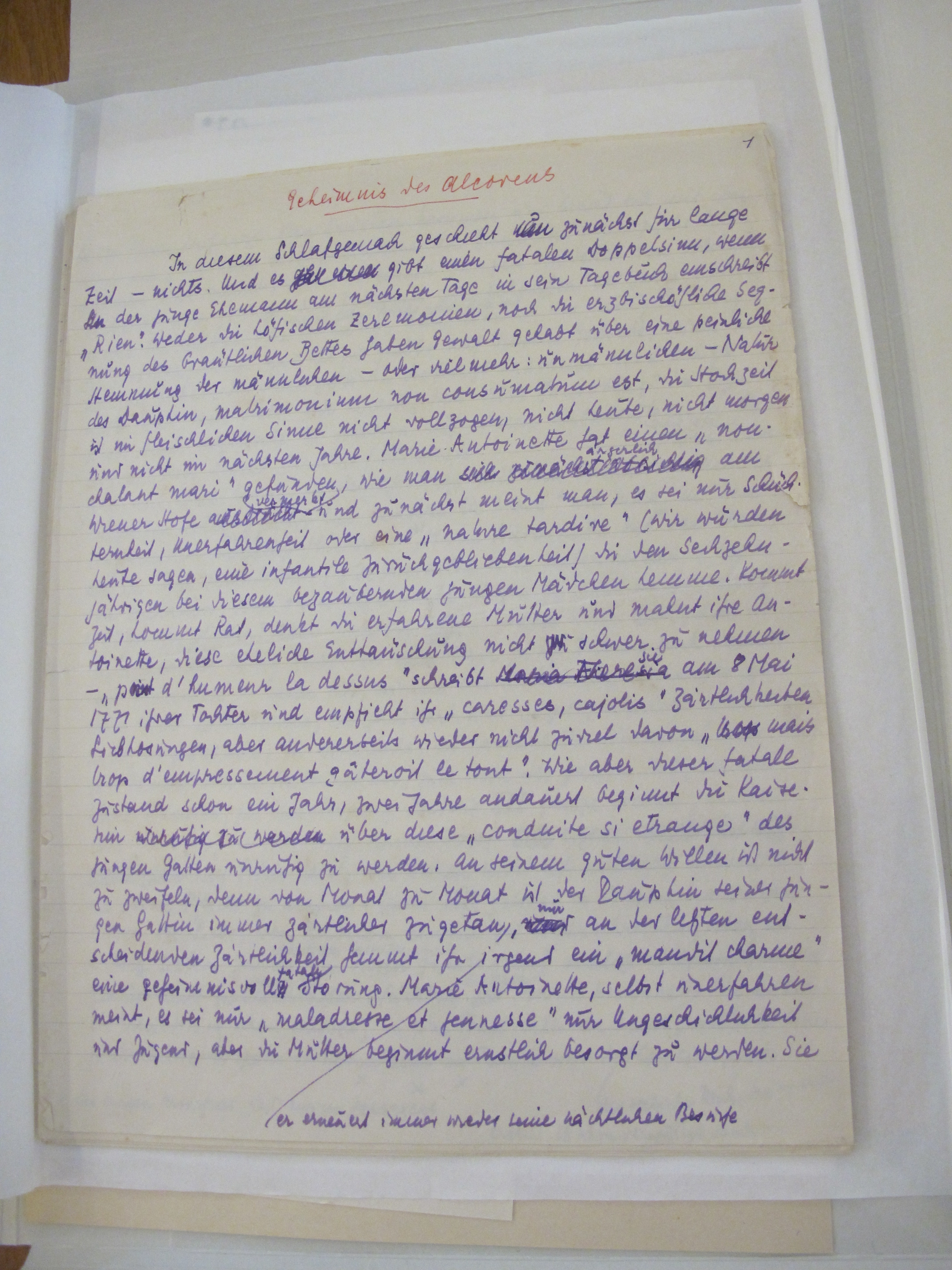 First page of the manuscript for Marie Antoinette. The Portrait of an Average Woman by Stefan Zweig, from his time in Salzburg. Stored at Literaturarchiv Salzburg.